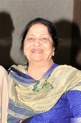 Madam Jagjit Kaur with Khayyam Saab and Mr. Talat Aziz